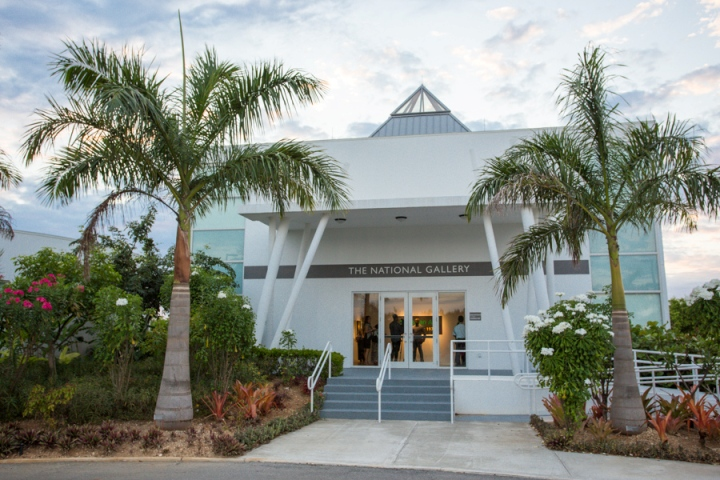 picture of the NGCI building